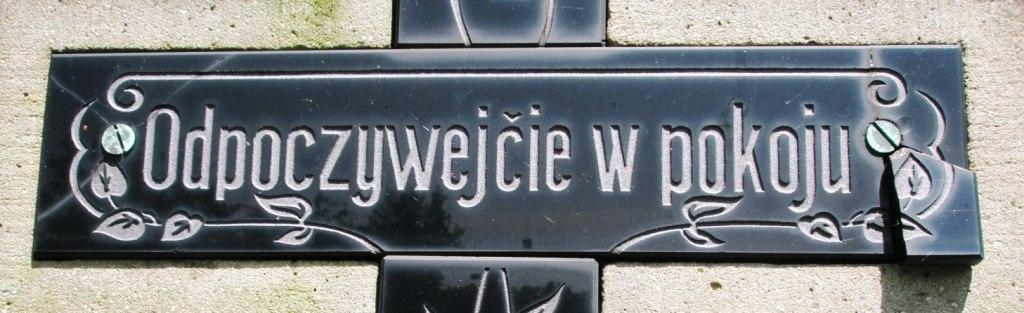 Grave inscription at Lutheran cemetery in Střítež (Trzycież, Trzitiesch) near Český Těšín (Czeski Cieszyn, Tsch. Teschen). Inscription, which say "Rest in Peace", is in local Cieszyn Silesian Dialect. [The tombstone was knocked down in 2015.]